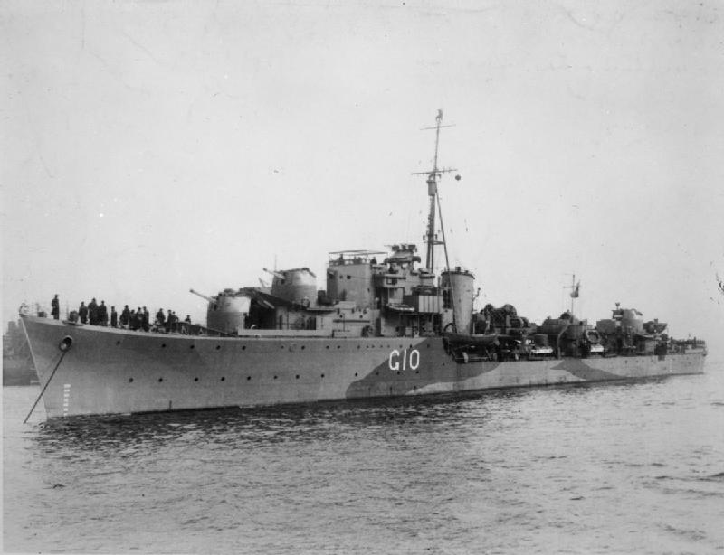 Photograph of British destroyer HMS Pathfinder.